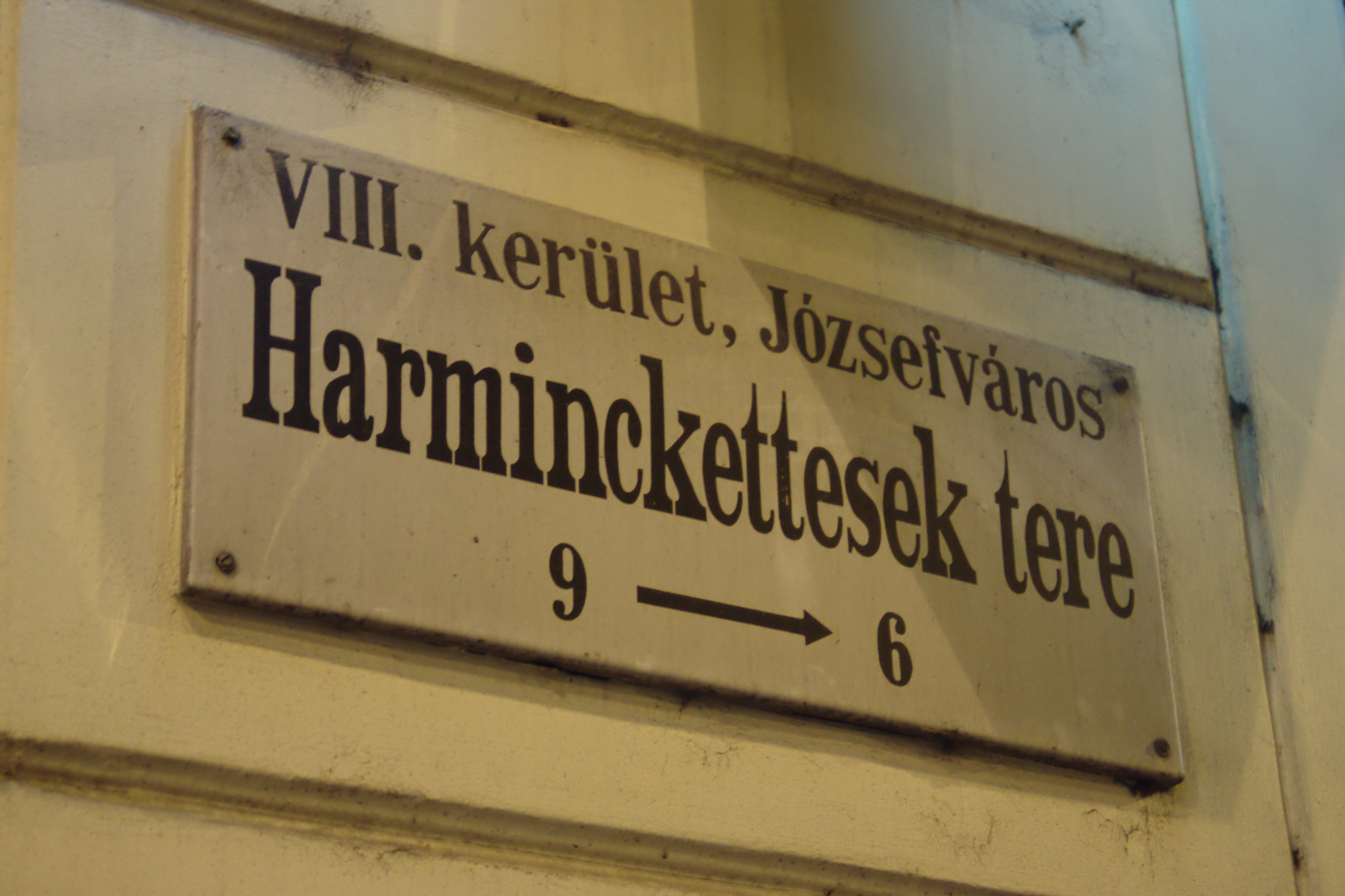 Harminckettessek square sign in the eastern part of the Budapest city center, Hungary